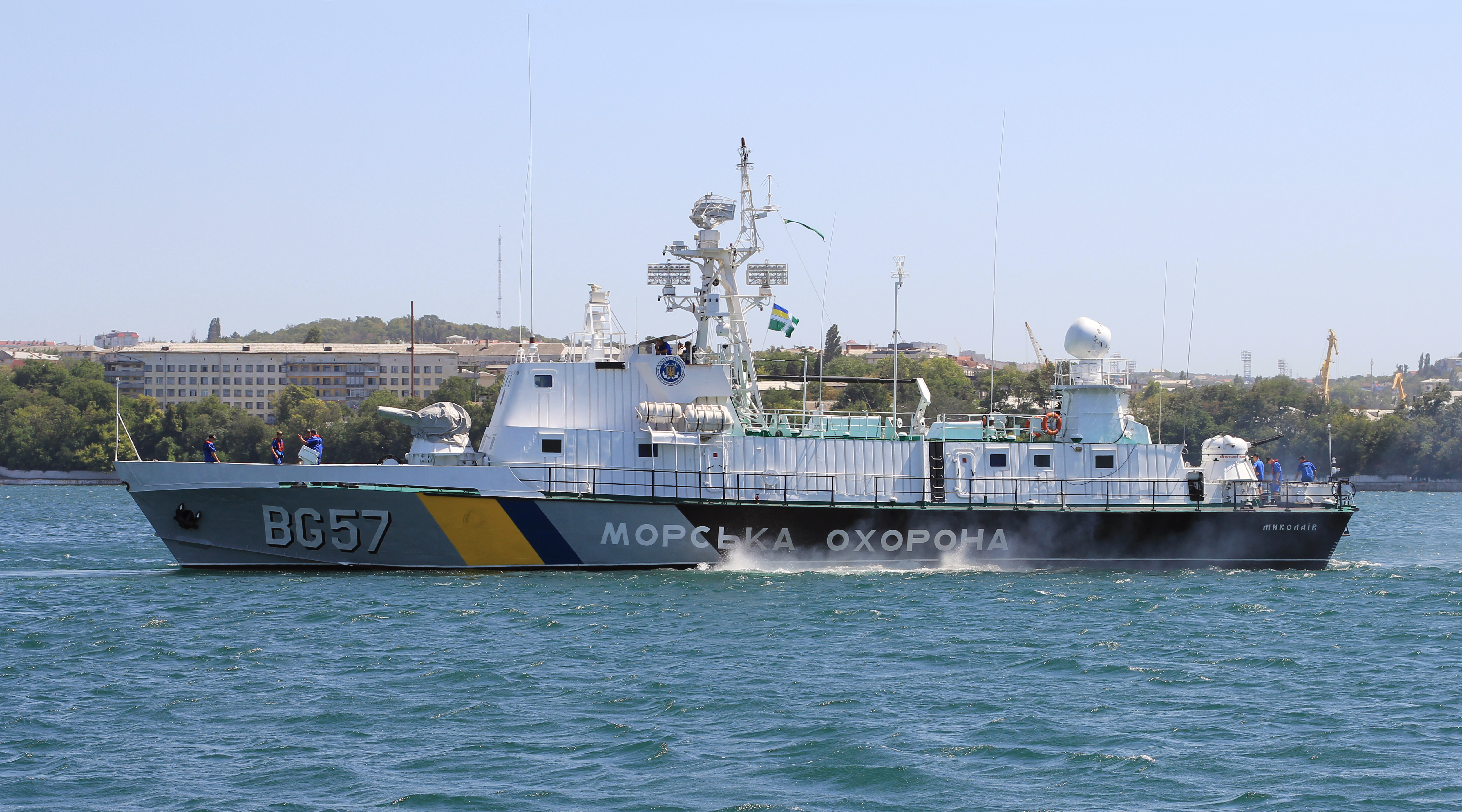 Stenka class patrol boat BG57 Mykolaiv (former soviet PSKR-722 boat). Project 205P. Ukrainian Sea Guard in Sevastopol bay.